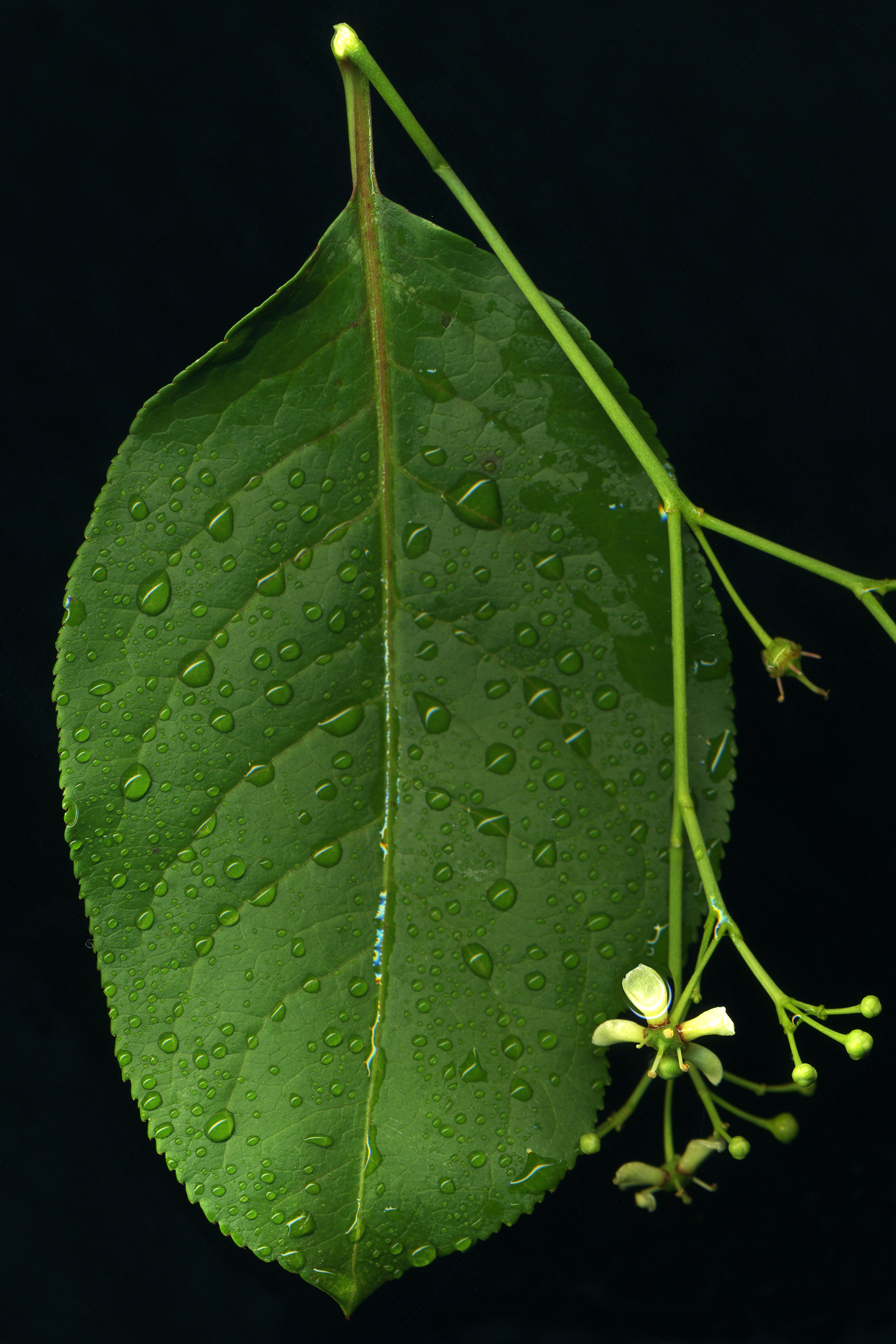 Euonymus europaeus L. (European spindle) - Town of Skaneateles, Onondaga County, New York